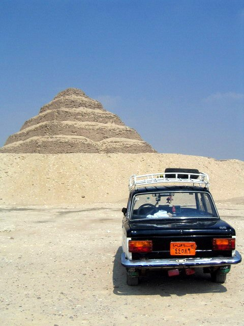 Polski FIAT 125p / Nasr 125 taxi in front of step pyramid of Djoser